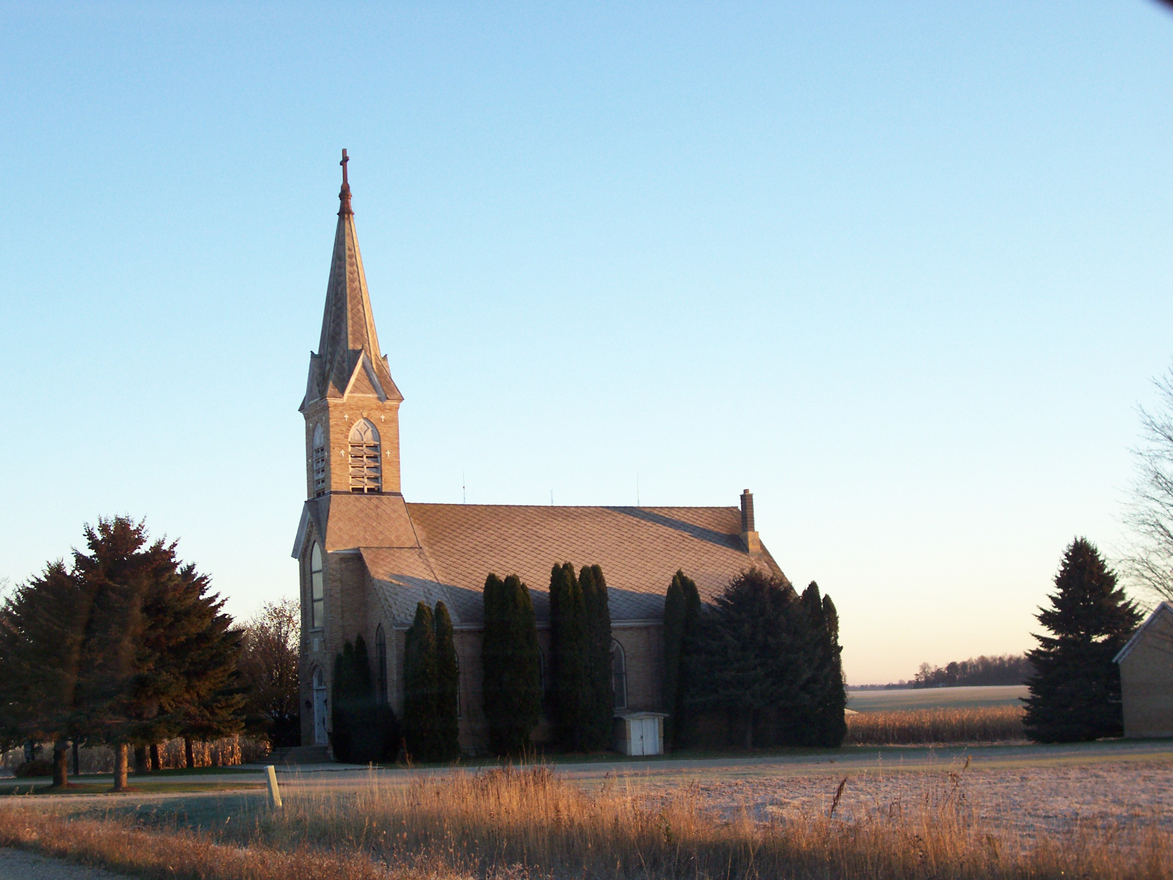 Looking northeast at St. Elizabeth's Catholic Church, 0.7 miles south of Kloten, Wisconsin, USA. Taken October 25 2006 by myself.